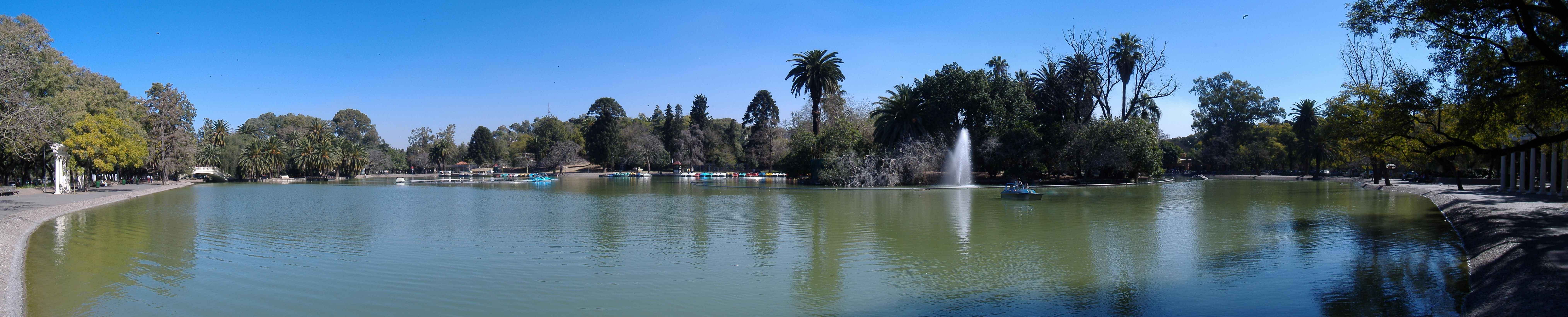 Artificial lake at Parque de la Independencia, a large urban park in Rosario, Argentina. Panoramic view produced by merging 13 pictures using Autostitch (